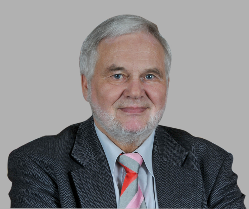 Portrait of Hartmut Wegener